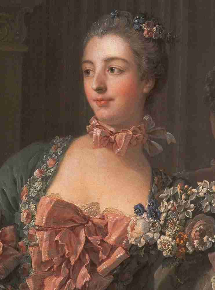 Portrait of the Marquise de Pompadour (1721-1764), detail